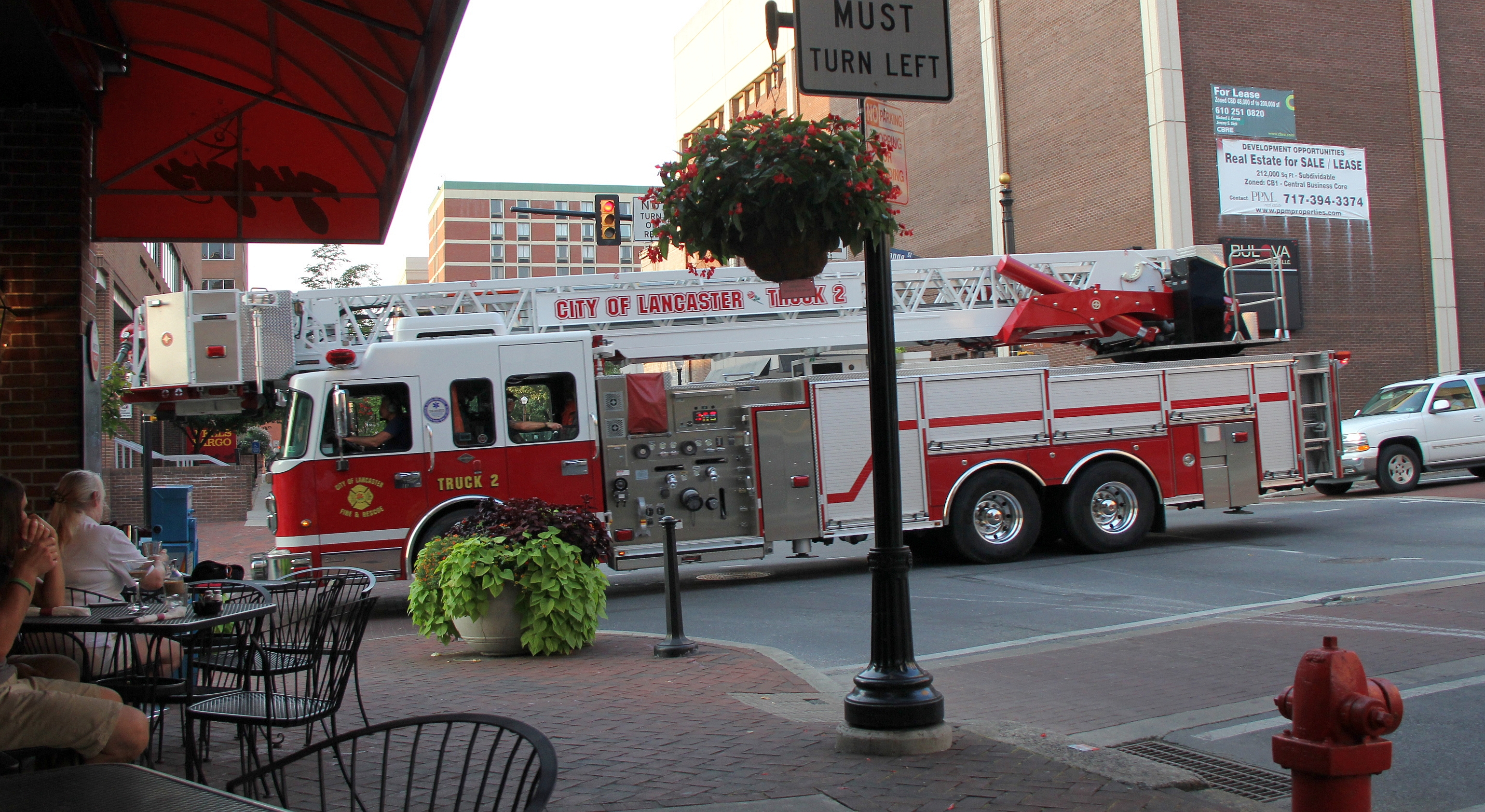 Lancaster City Bureau of Fire vehicle traveling on West Orange Street in Lancaster, Pennsylvania.